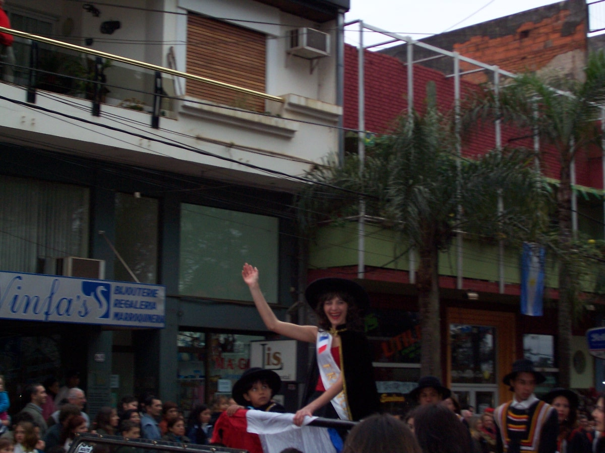 Valeria Vignolles, queen of the French colectivity, during the inaugural parade of XXVI Immigrant's National Festival, in Oberá, Misiones, Argentina.